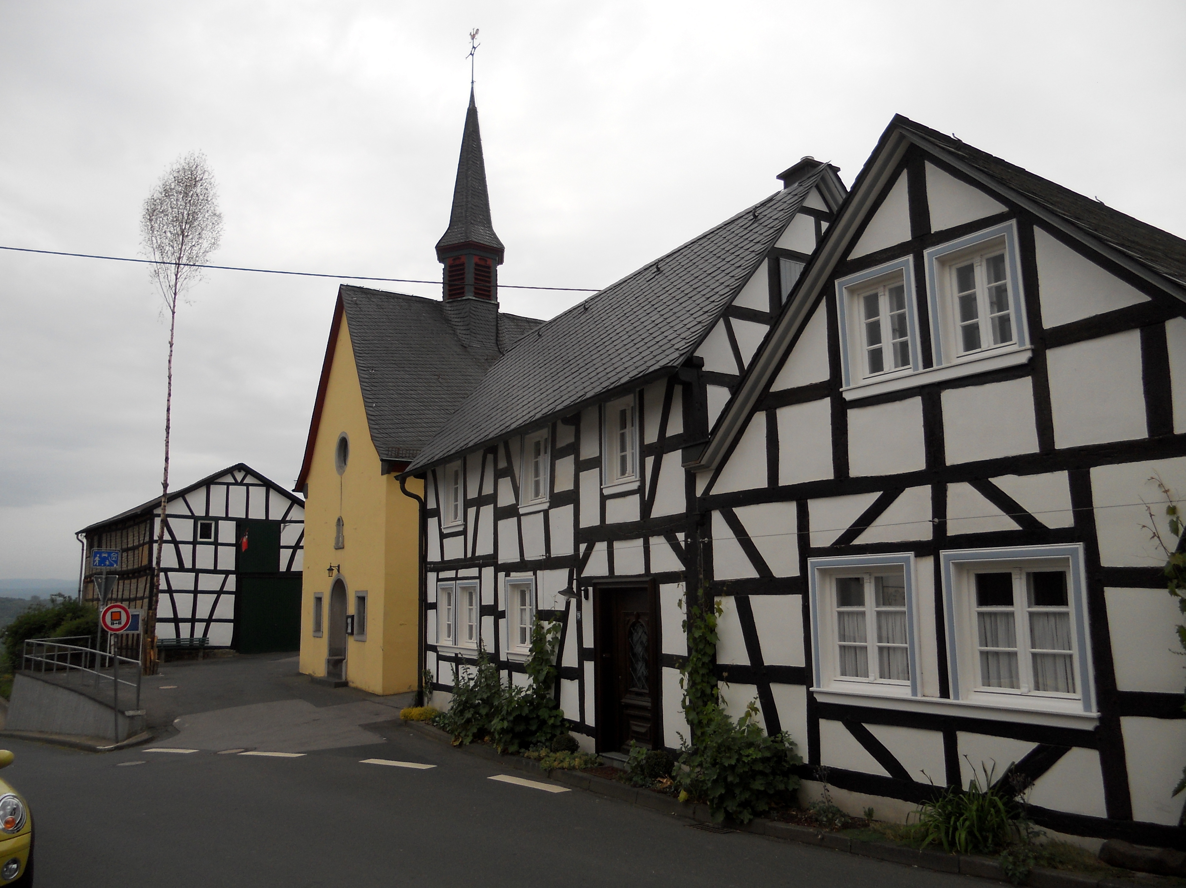 Orsberg, Kapelle St. Josef